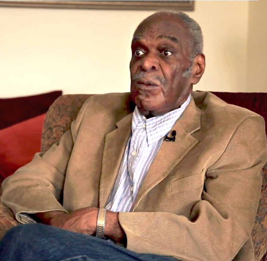 Screenshot from The Lion at Rest: Conversations with Douglas Turner Ward. The full interview with Douglas Turner Ward talking about various aspects of Black Theatre. Produced and directed by Gus Edwards, shot by Dave Surber and edited by Travis Mills. This documentary premiered at a conference in Texas honoring Douglas Turner Ward. More from Running Wild Films